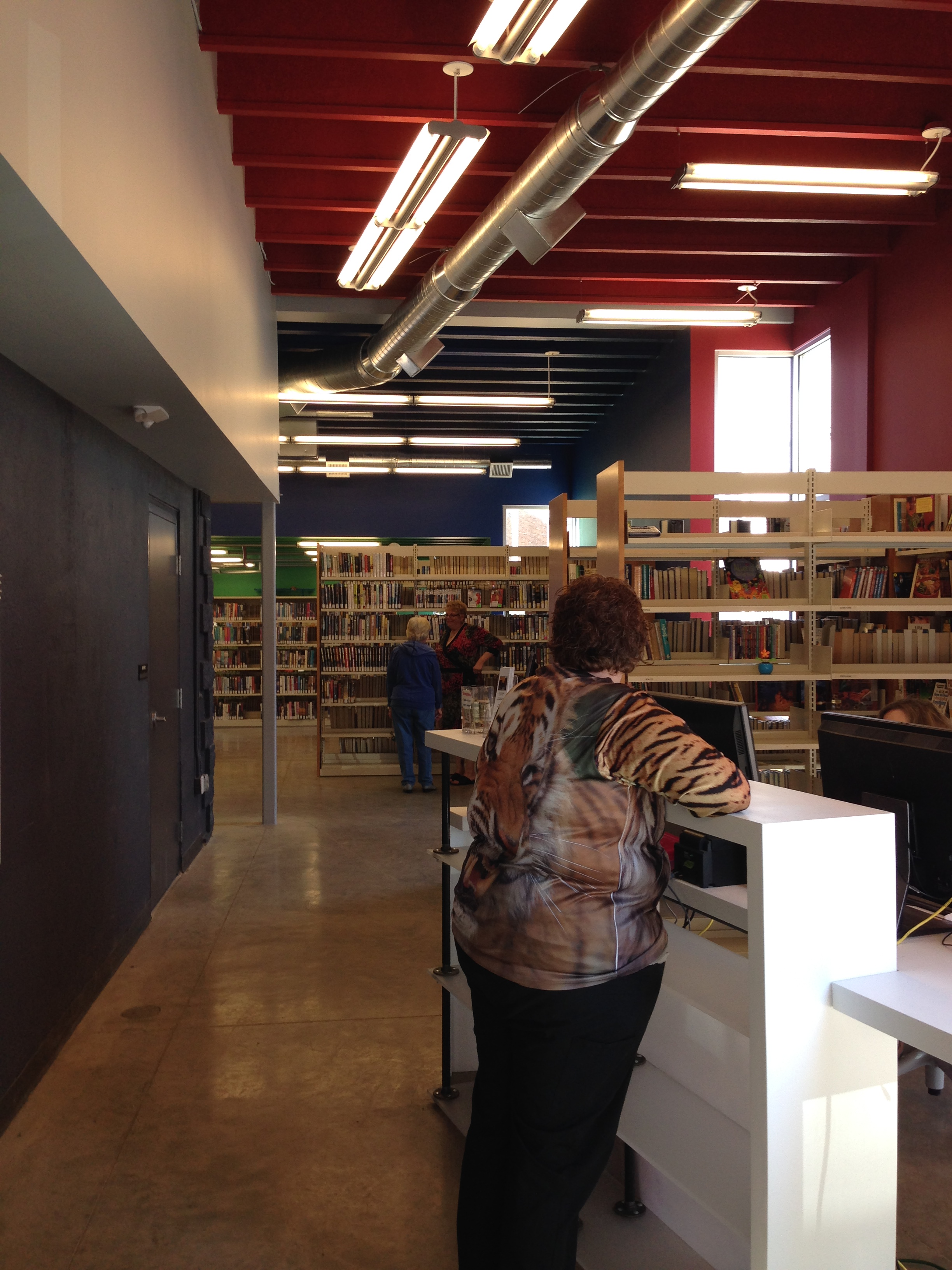 Sharpsburg Community Library.